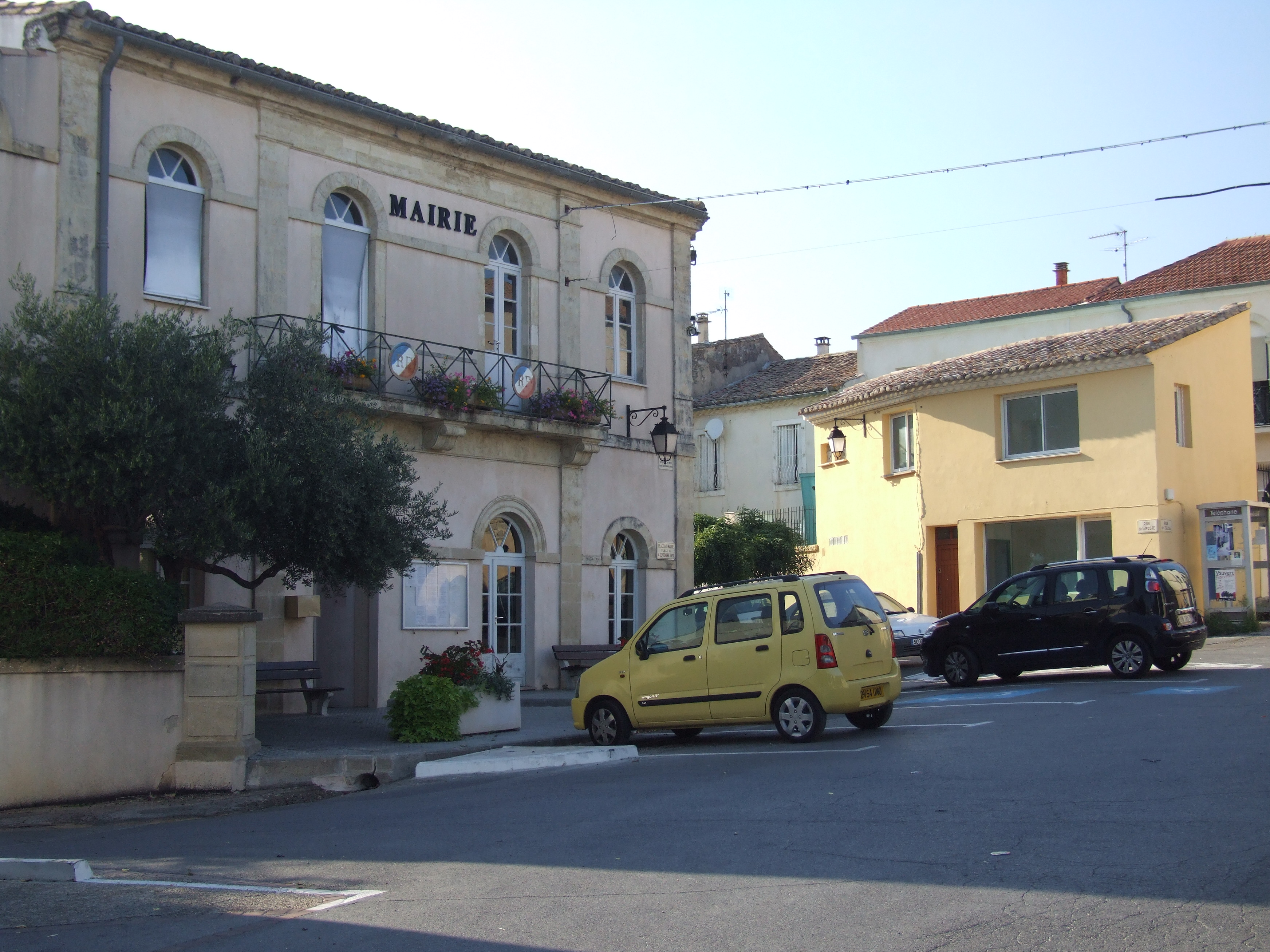 Mus is a commune in Gard bordering on Vergèze. Mairie and square in F30185 Mus INSEE 30121.